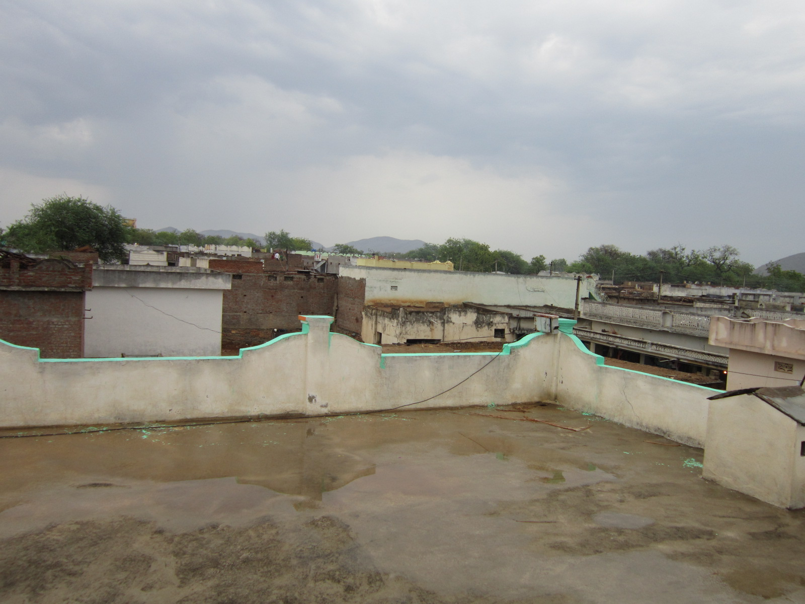 Lellapalli village view-Tripurantakam mandalam,Andhra pradesh,India